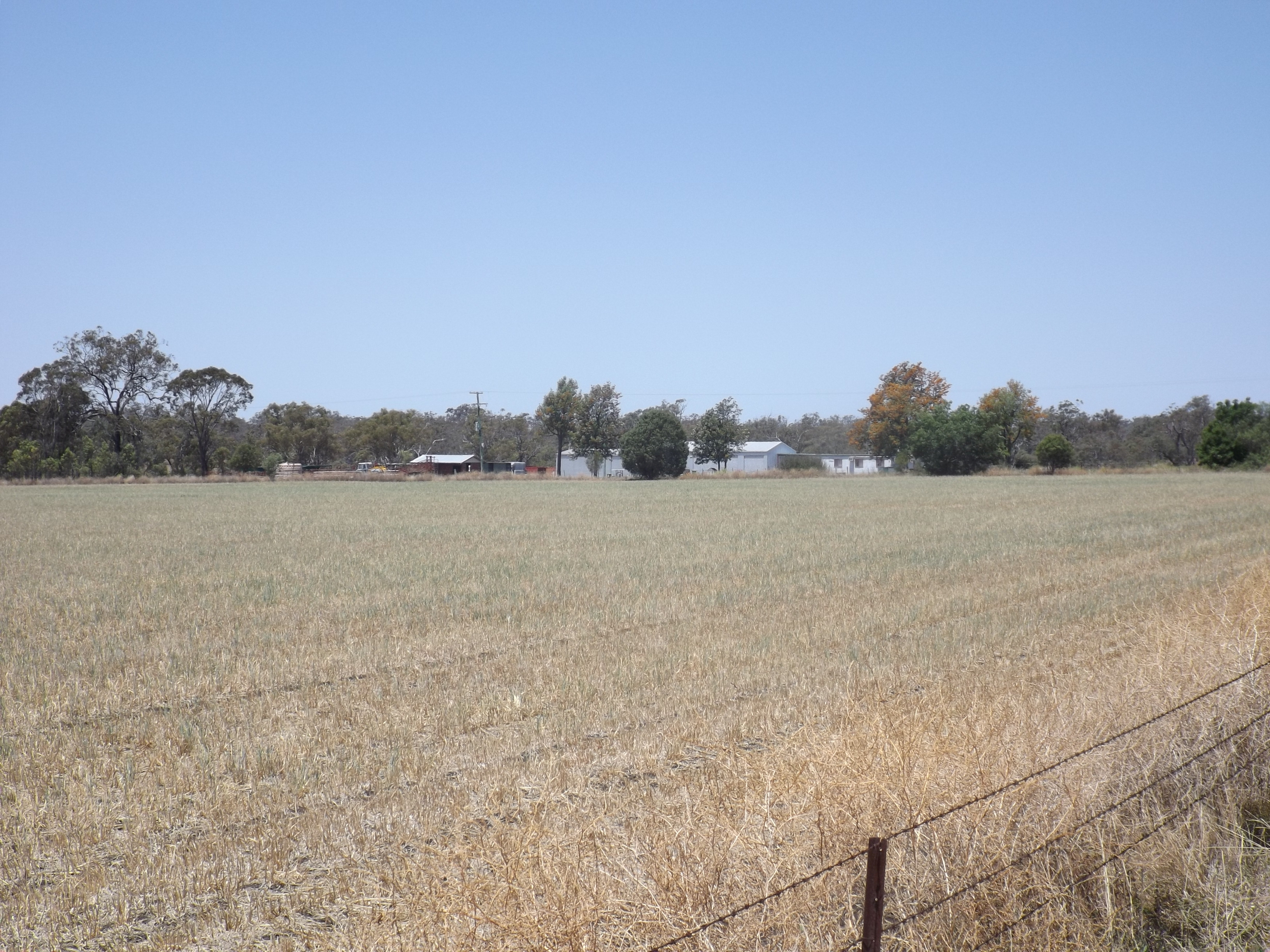 Photo of fields along Biddeston Southbrook Road at Athol, Queensland, Australia.